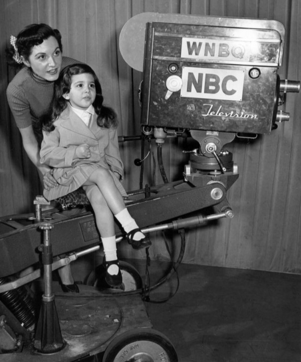 Photo of a television camera used in 1951. The television station was known as WNBQ at the time, but has been WMAQ-TV for many years. Actress-singer Connie Russell and her daughter, Austine, are pictured. Russell was a regular on the television show Garroway at Large which was produced at WNBQ.